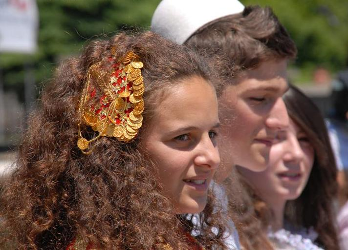 Students of Asdreni primary school in Gloǵi, Macedonia